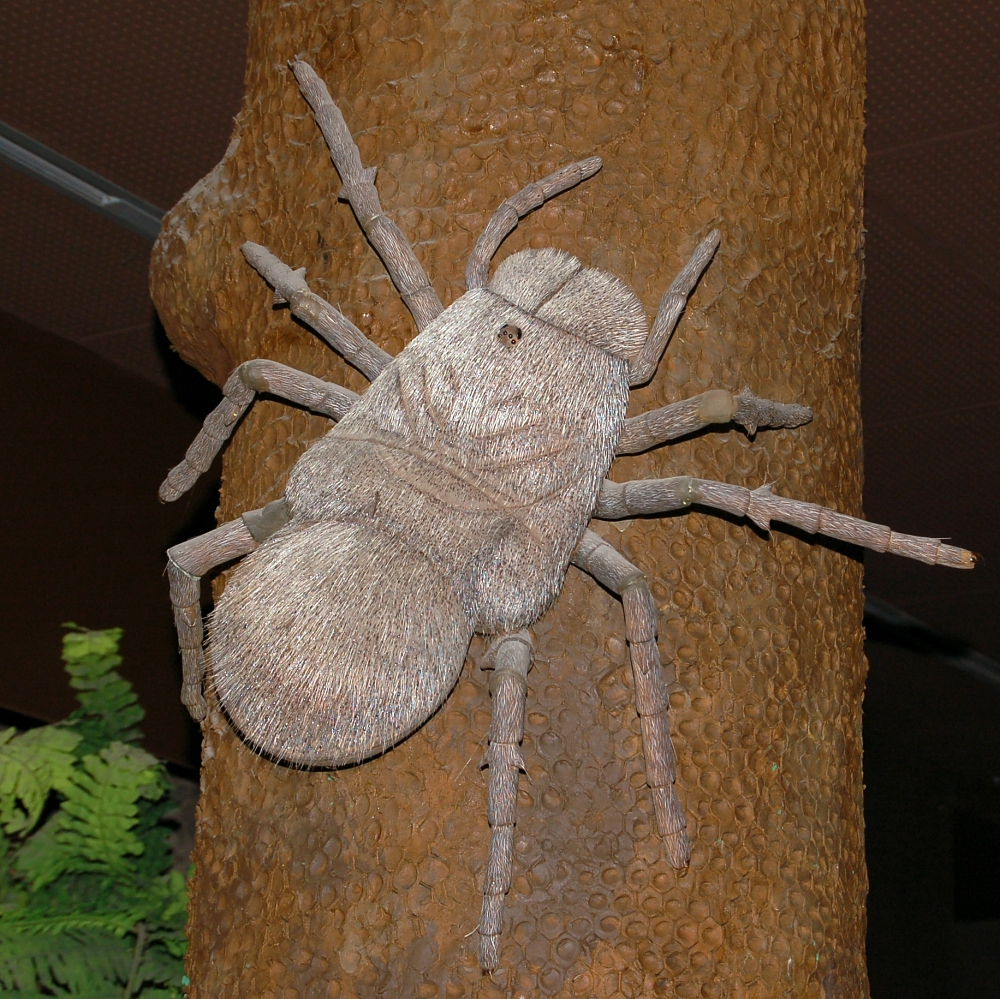 Outdated reconstruction of Megarachne servinei as an arachnid, Muséum d'histoire naturelle de Genève, Geneva, Switzerland.